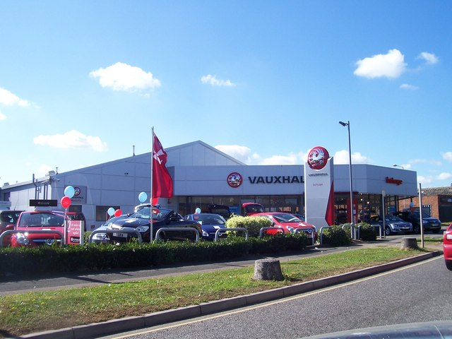 Exeter : Marsh Barton - Inchcape Vauxhall Car Dealership